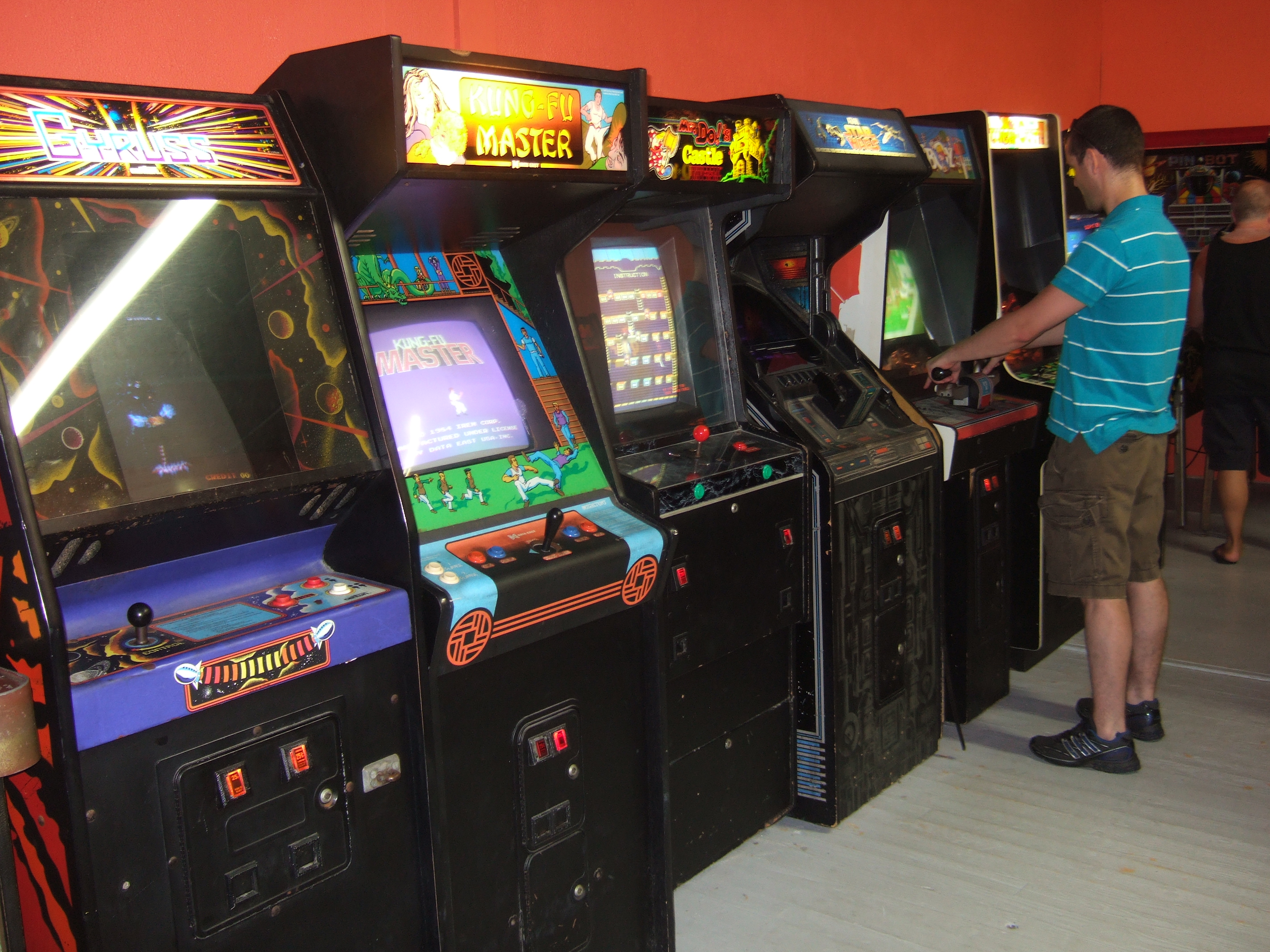 Arcade cabinets Gyruss, Kung-Fu Master, Mr. Do's Castle, Star Wars, PaperboyFlashbacks arcade, Seaside Heights, NJ, 7/25/09 - 8 of 20